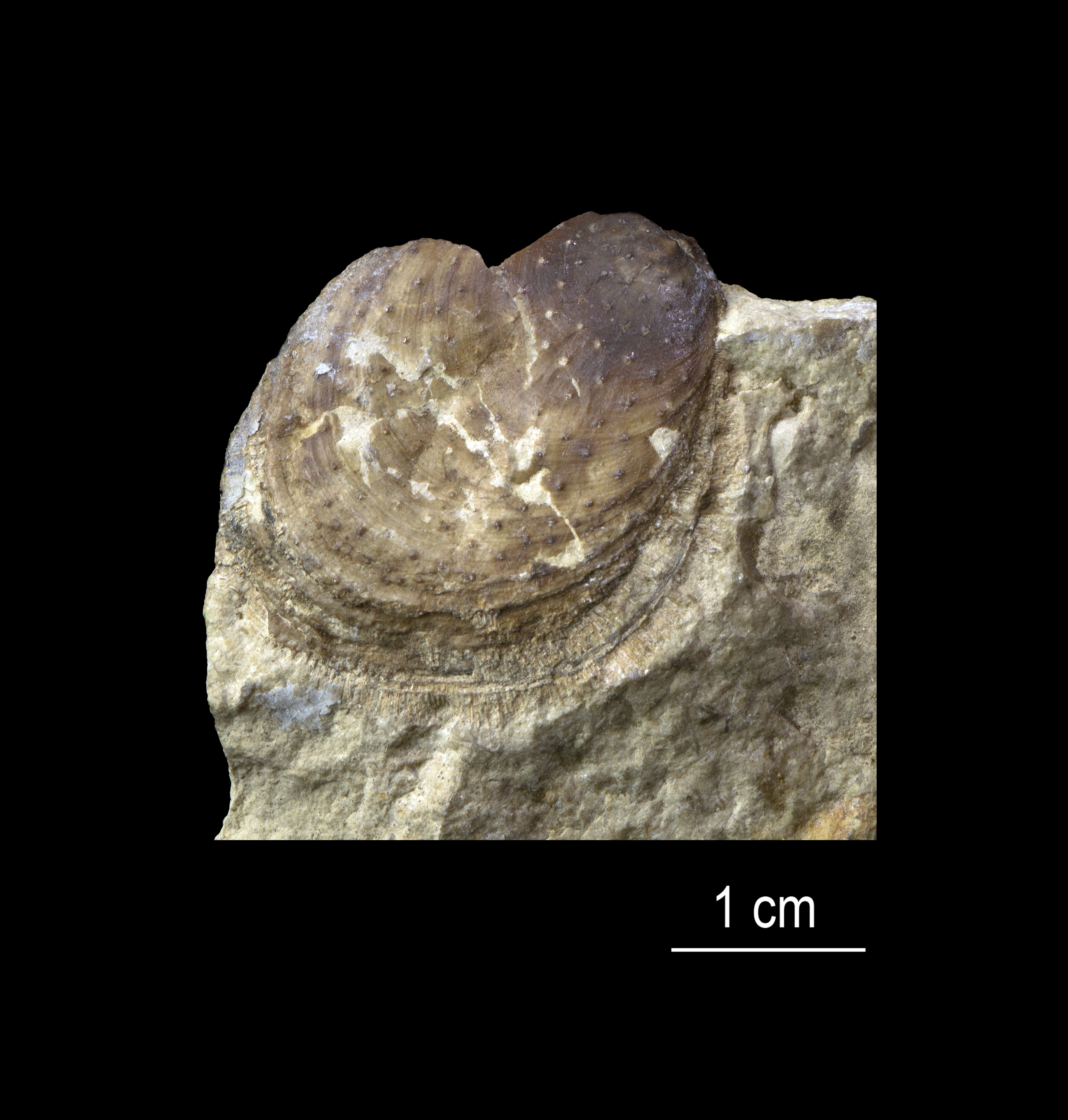 Siphonotreta sp.. More info about this file and about this specimen at